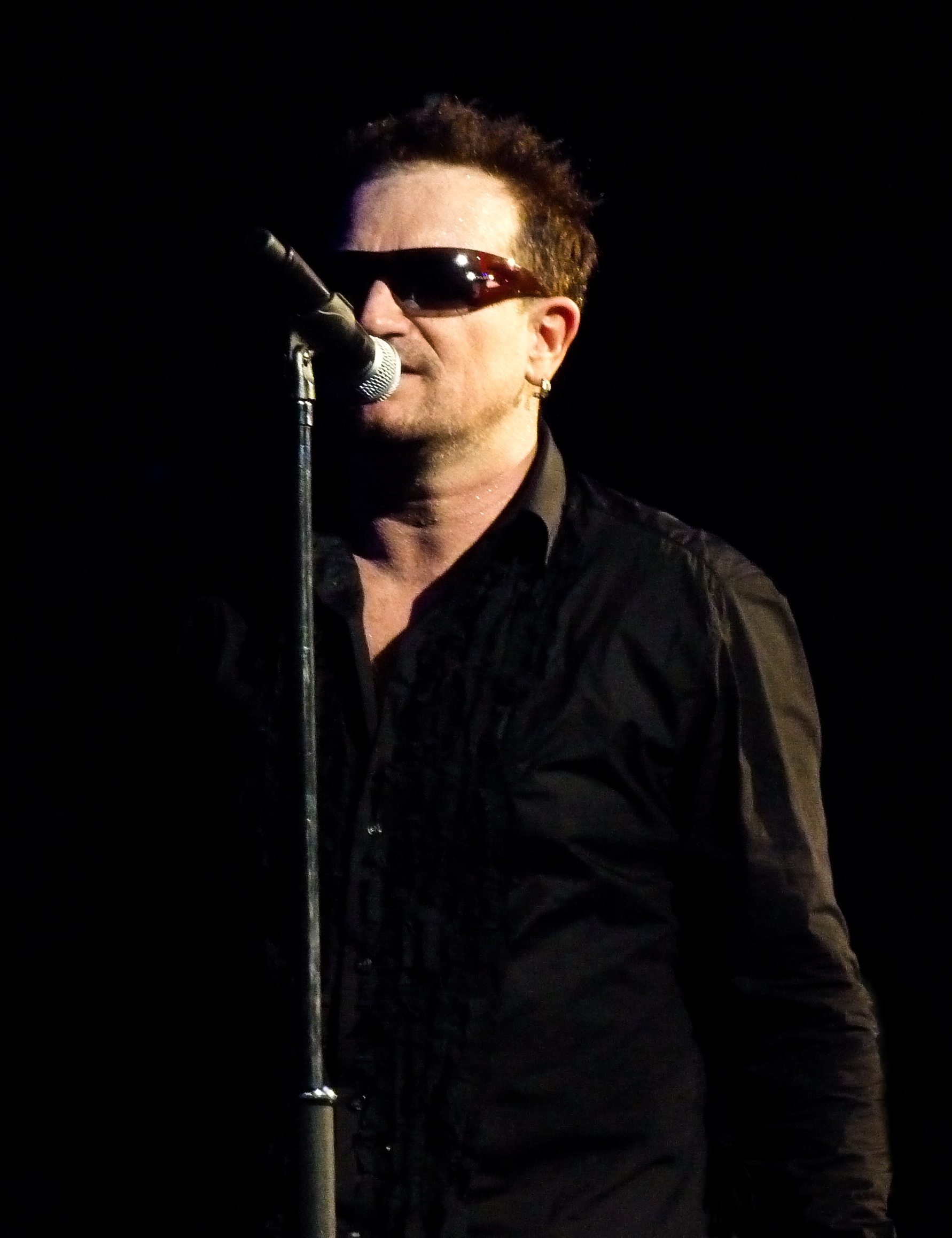 Bono singing in concert in La Plata, Buenos Aires, Argentina, on March 30, 2011